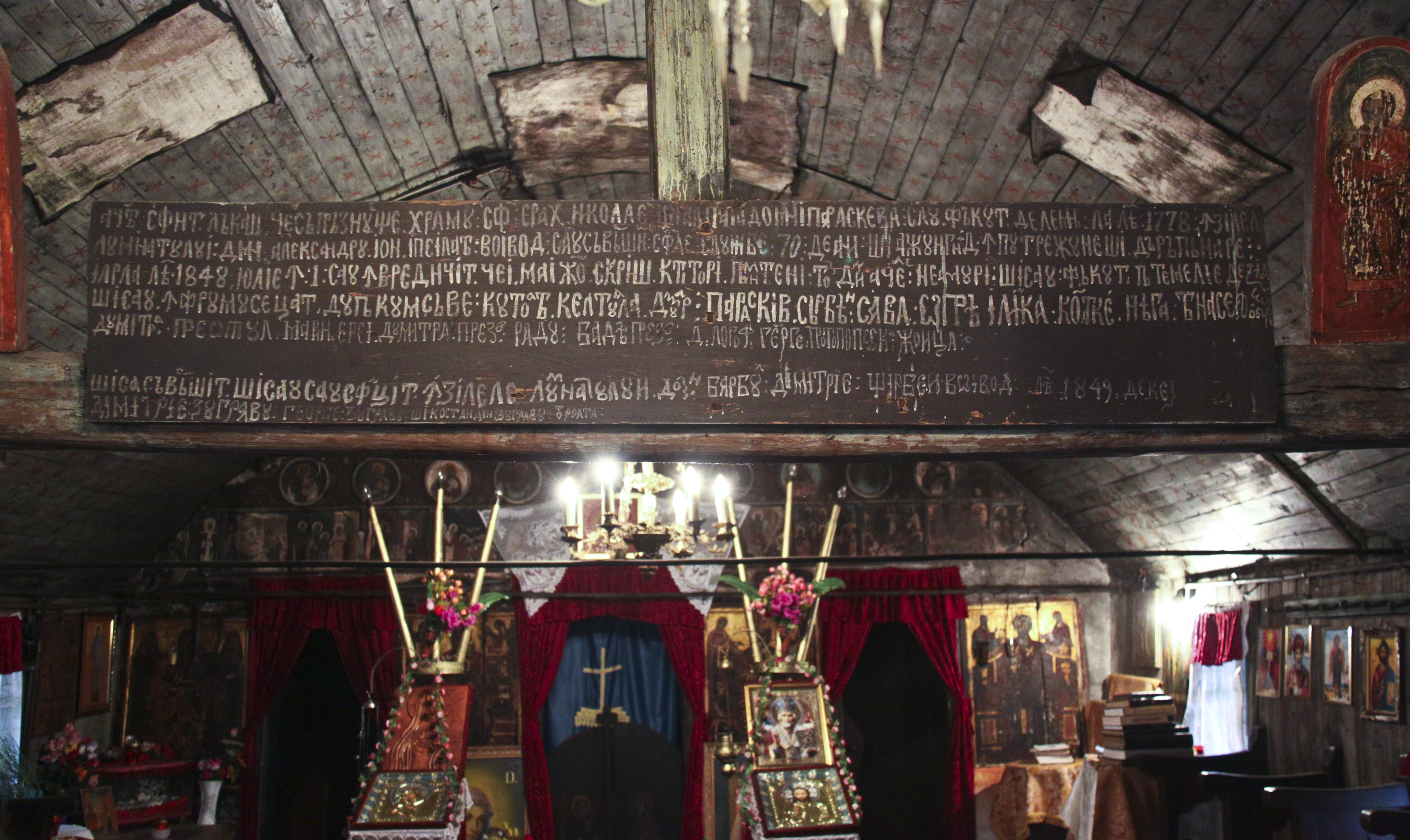 Sârbenii de Jos, Teleorman county, Romania: the wooden church.